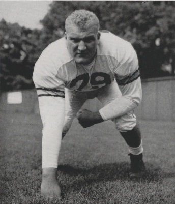 Photograph of Joe Krupa, Purdue football player